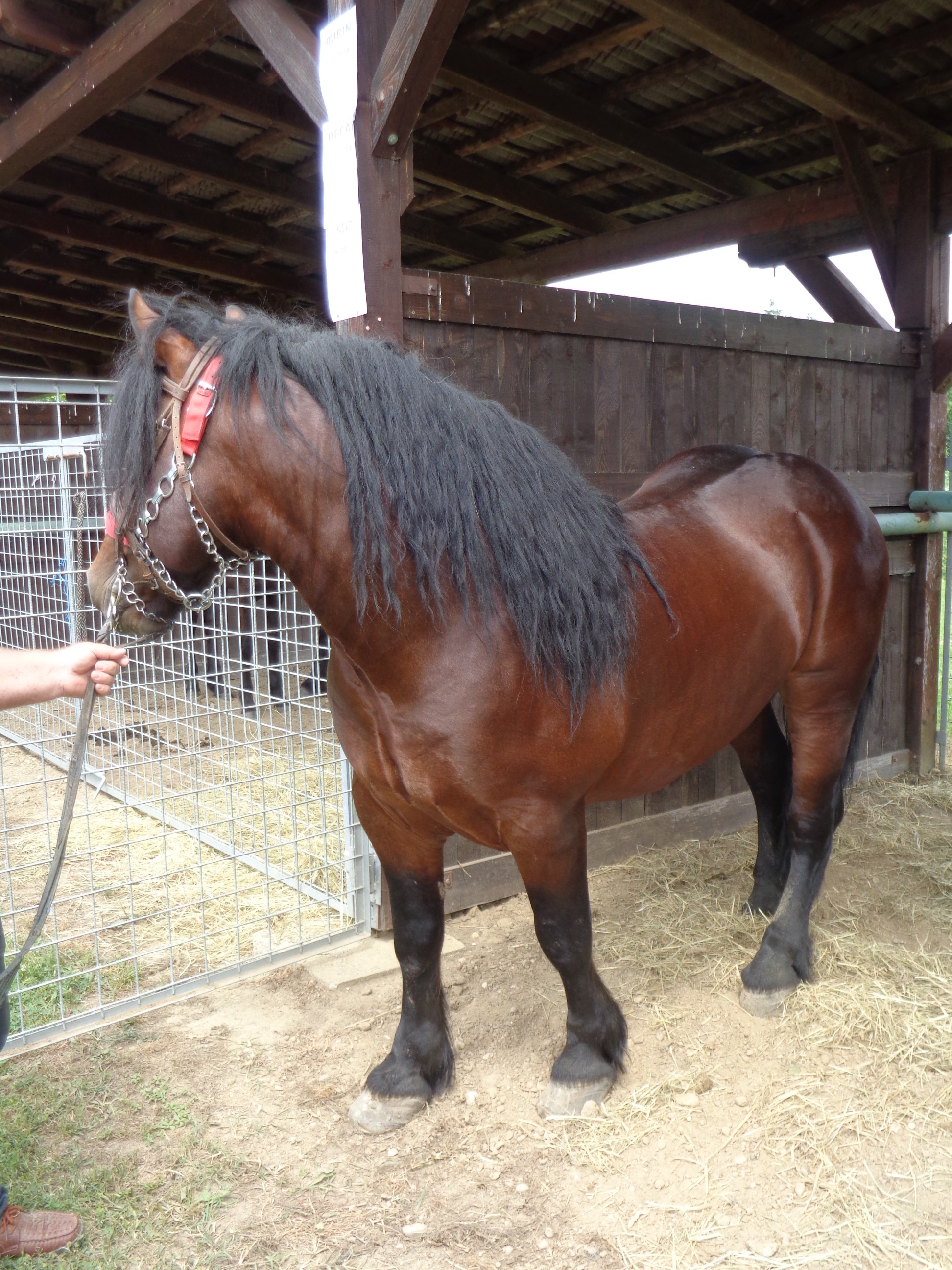 Croatian Coldblood, horse breed of Croatia, at 2018 MESAP Trade Fair in Nedelišće, Medjimurie County